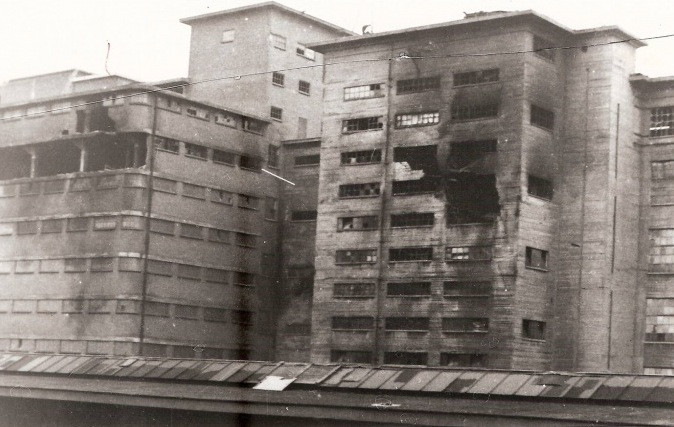 Damage to one of the buildings of the Philips Strijp complex caused by a Ventura aircraft crashing into the building during a raid, 6 December 1942